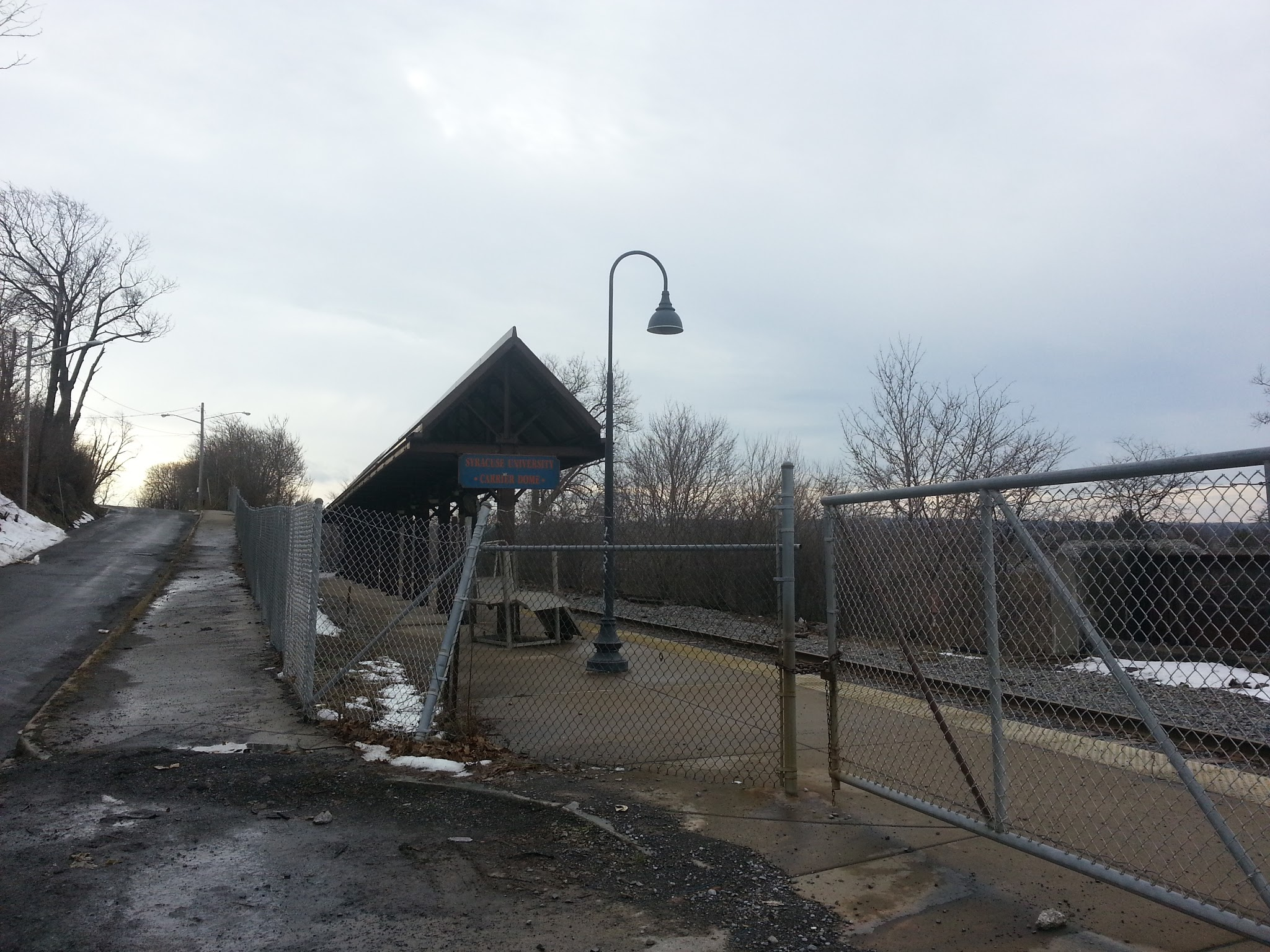 Former Syracuse University - Carrier Dome station at Syracuse University